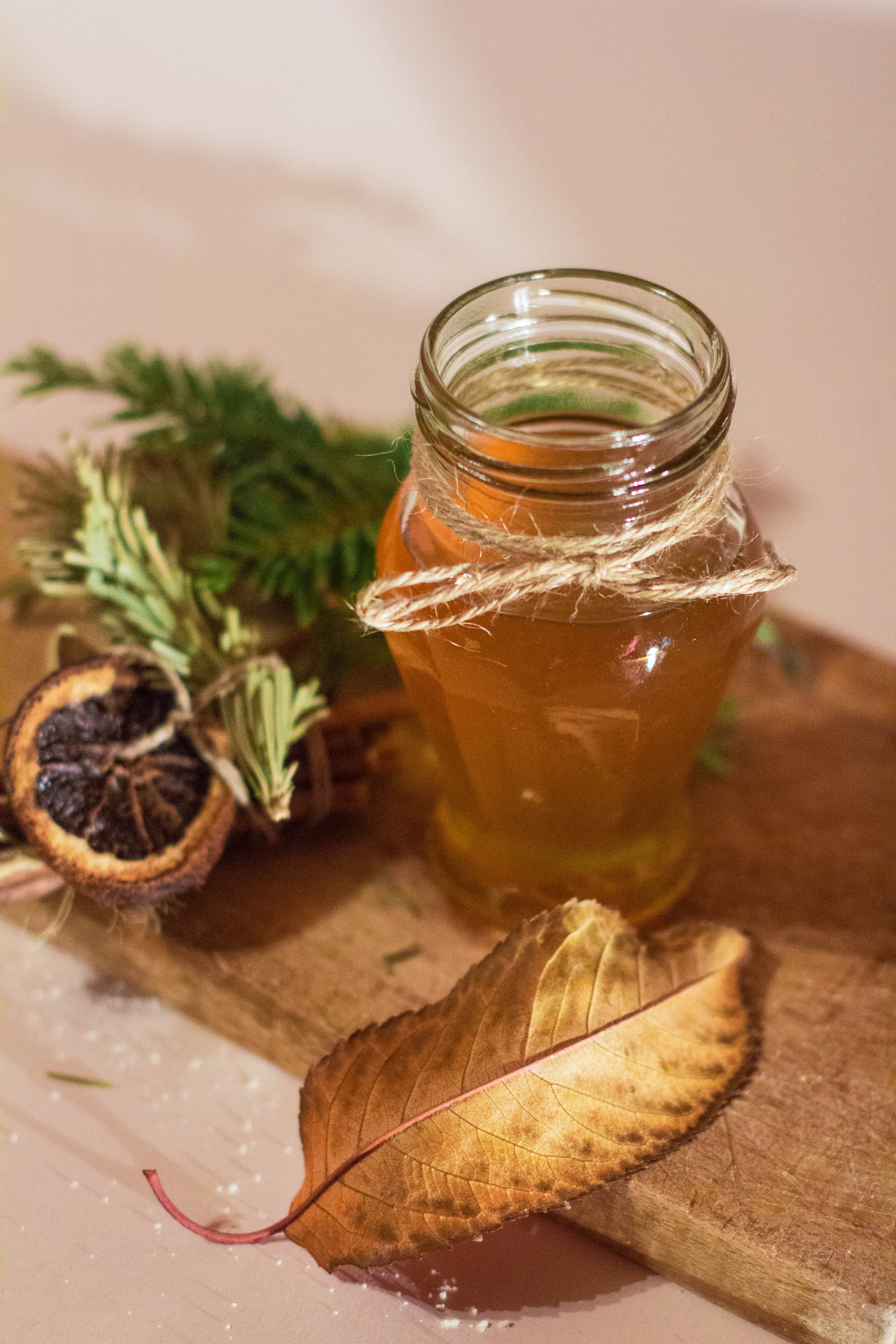 Forest honey